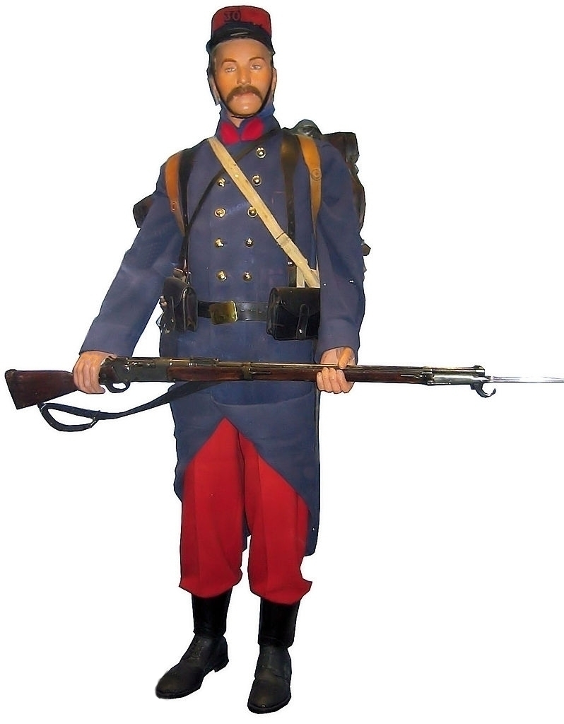 French soldier of WWI in 1914 (in coll. Mémorial de Verdun)